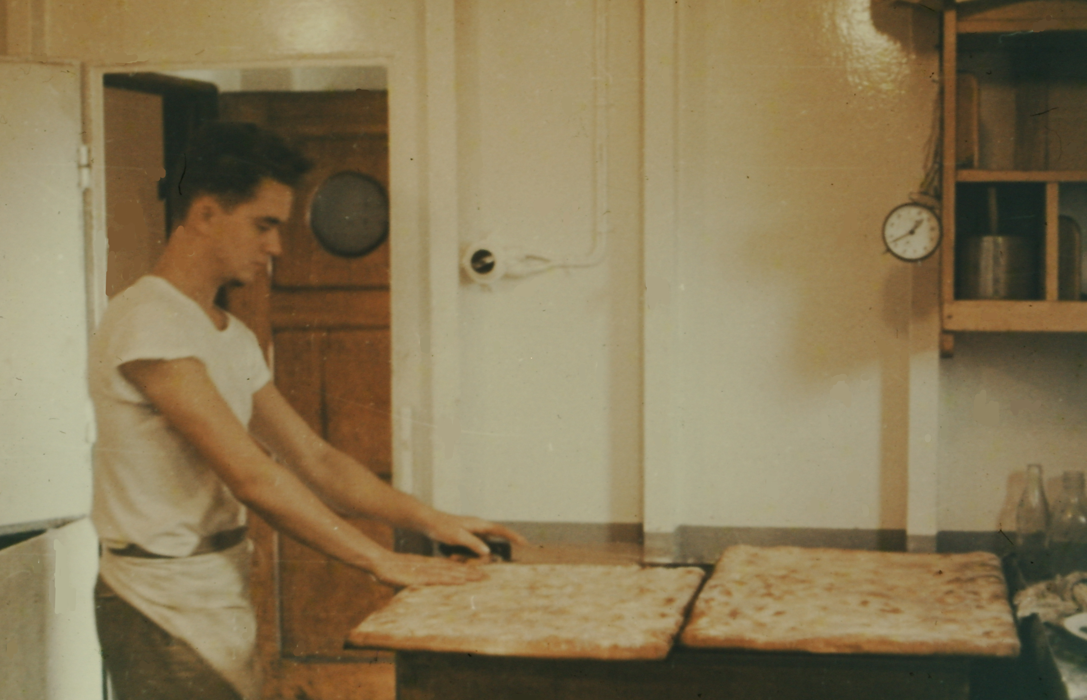 Ship baker in the galley when baking crumb- or butter cake - also called armored plates. Crumble- or butter cake was baked mostly on Sunday and Thursday, the sailor Sunday.